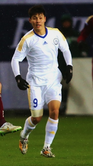 Bauyrzhan Islamkhan